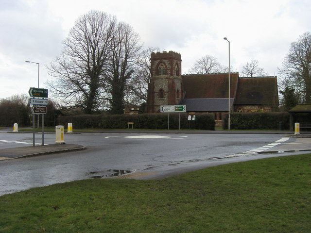 Parish church of St Mary the Virgin, Stoke Mandeville, Buckinghsmshire, seen from south-southeast from across Station Road (right) at the junction with Lower Road (left) and Risbirough Road (lower left)